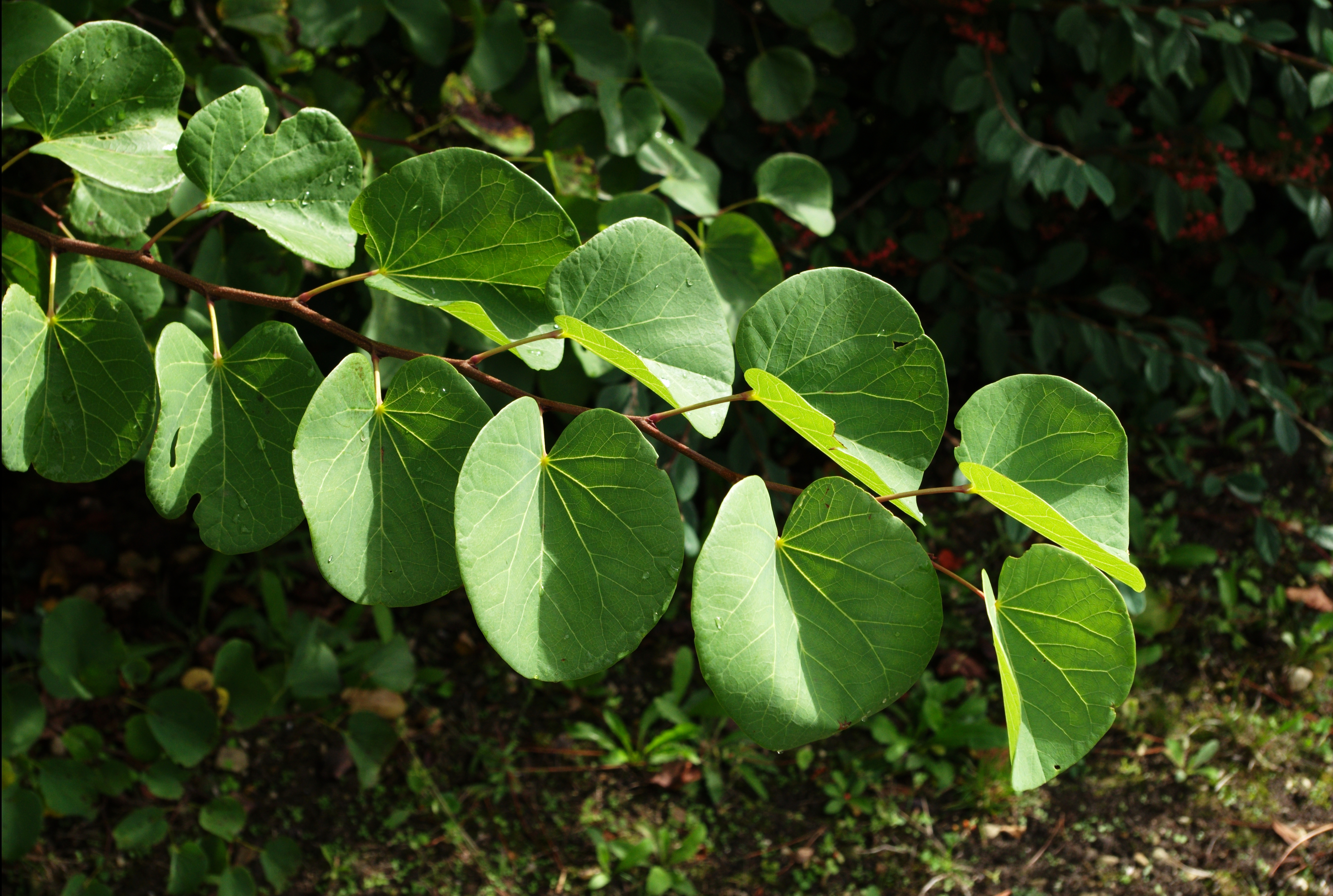 Judas tree (Cercis siliquastrum), leaves, in a garden, France.